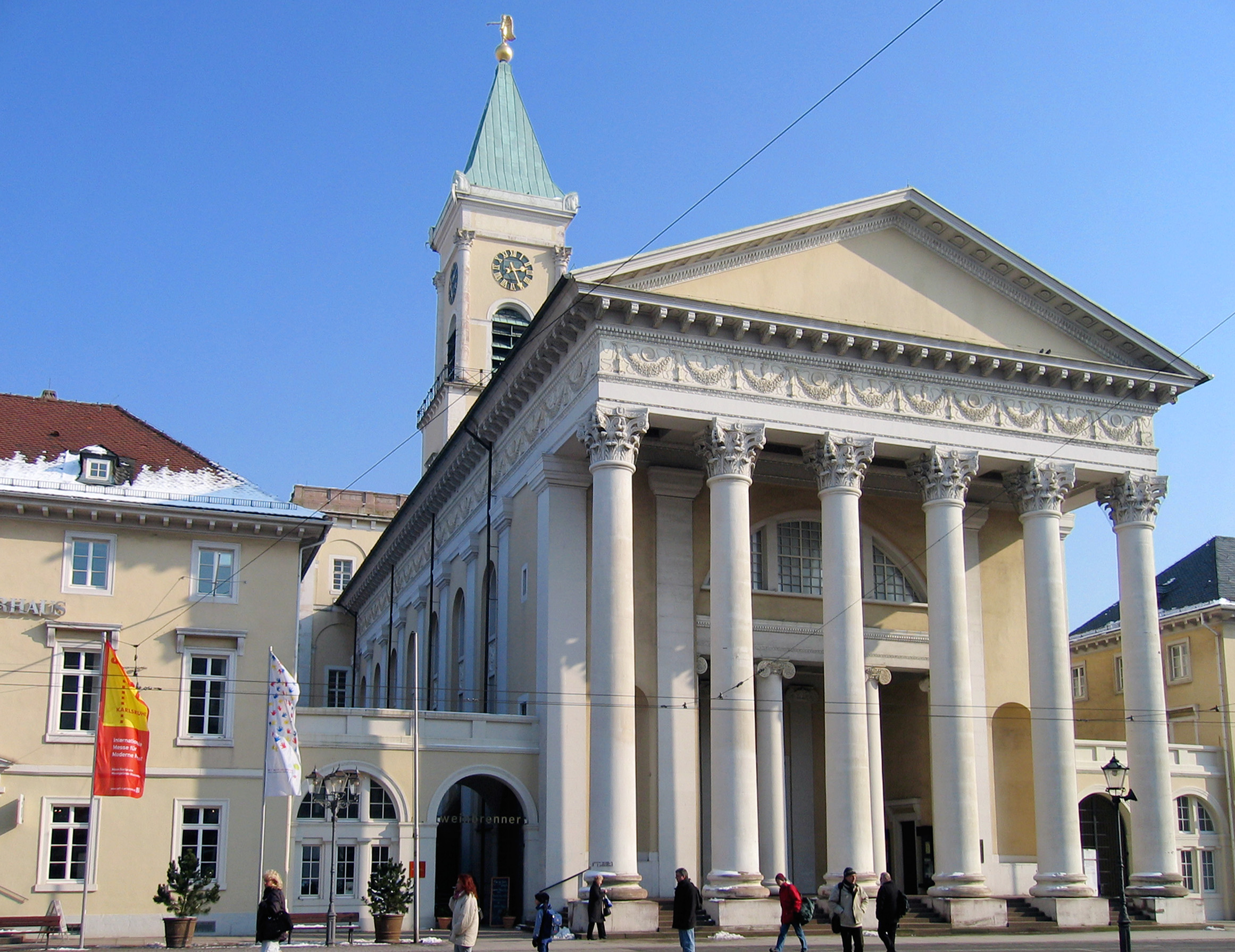 the church was built in the years 1807-1816 by Friedrich Weinbrenner, in 1944 it was destroyed, rebuilt till 1958